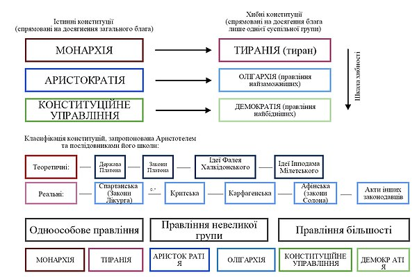 Translation from File:Aristotle's constitutions diagram.png into Ukrainian